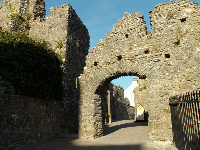 Part of Tenby Castle This 13th century entrance to the castle also leads to the town's museum.